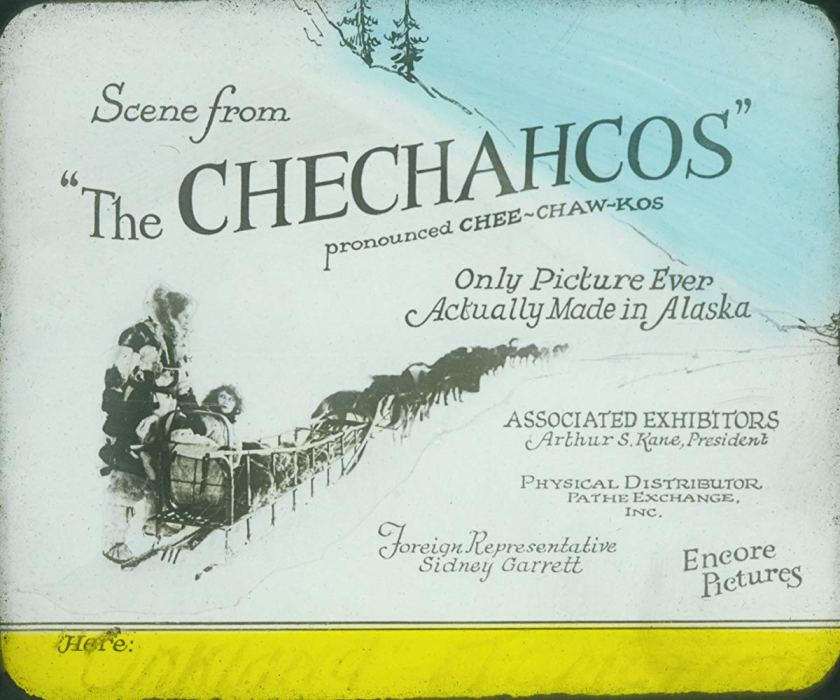 The Chechahcos (1924) glass advertising slide